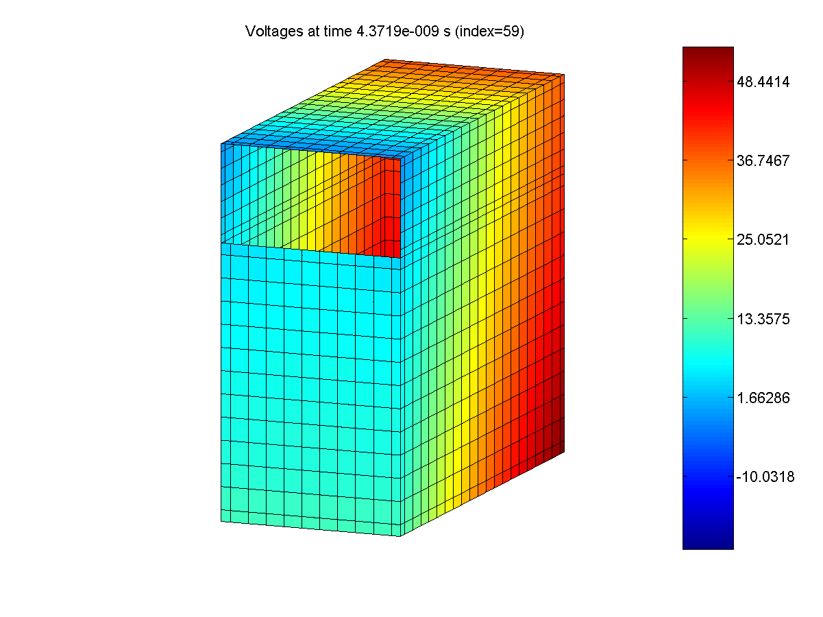 Case simulation. (PEEC)